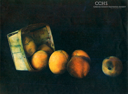 Early color photography using Solgram process in 1904 (USA).